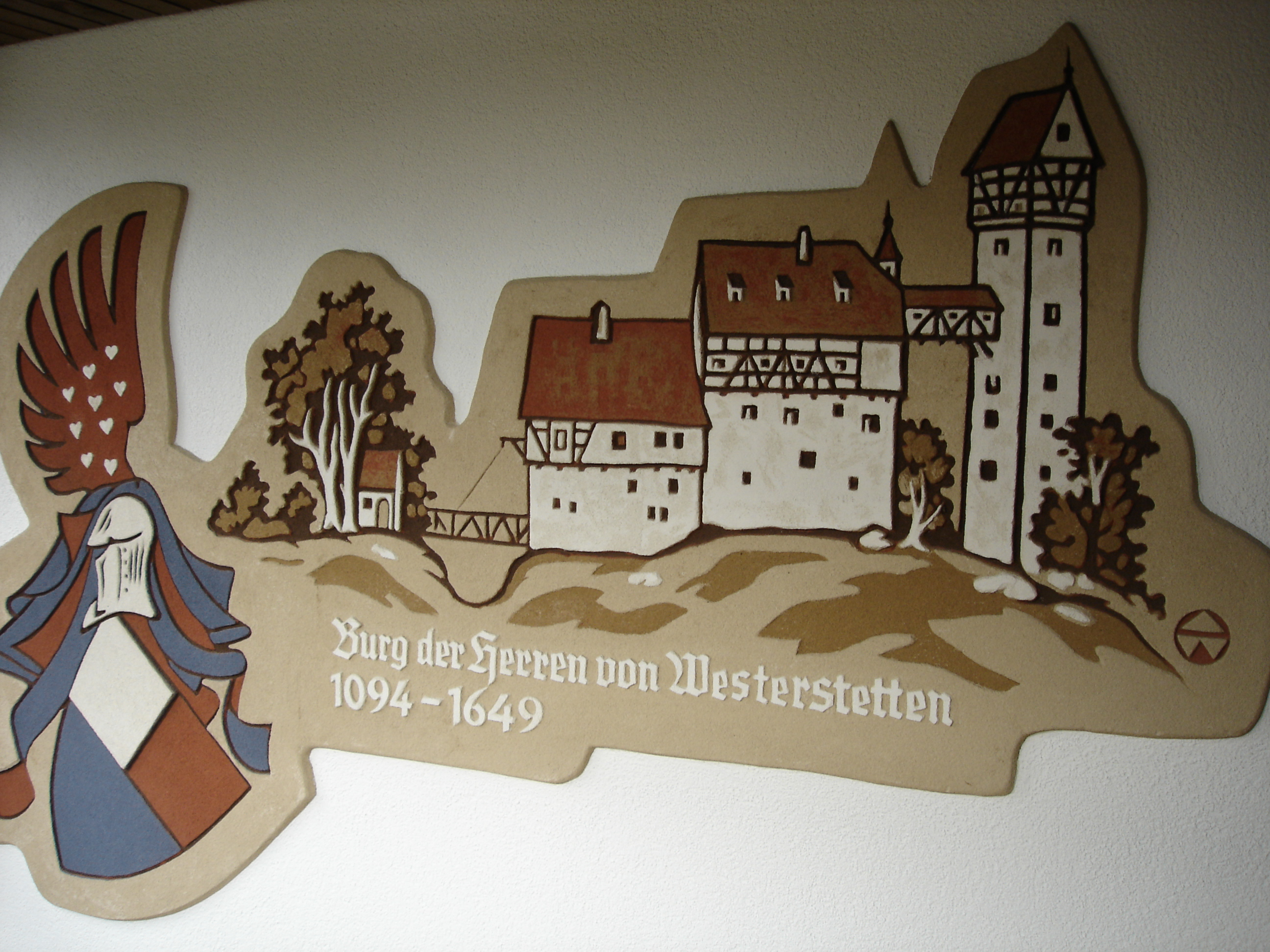 The former castle of Westerstetten, sgraffito of the reconstuction, located in the town hall of Westerstetten